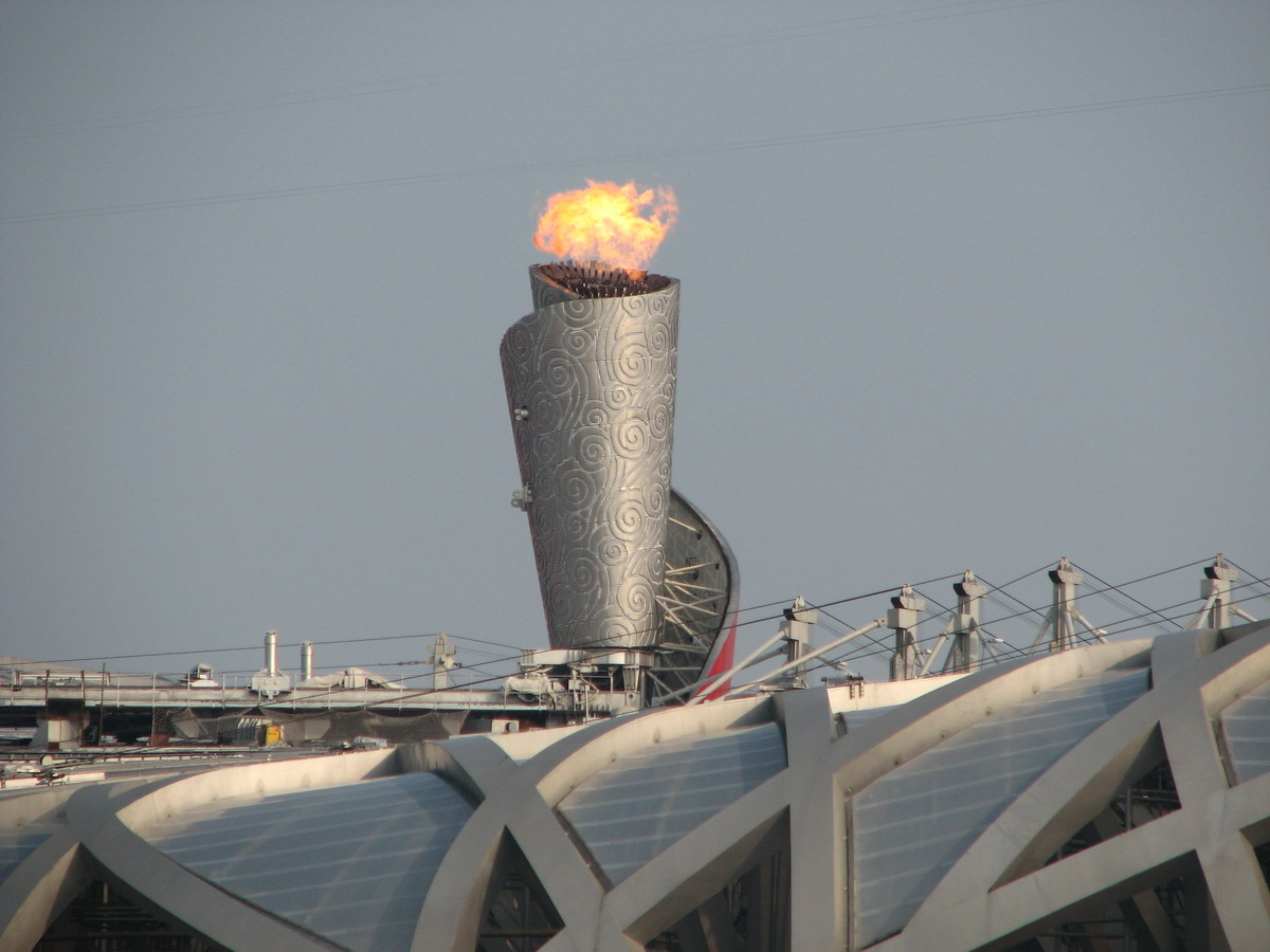 Beijing Olympic torch (see from outside); Beijing National Stadium; Beijing 2008 Summer Olympics; Beijing, P.R.China.